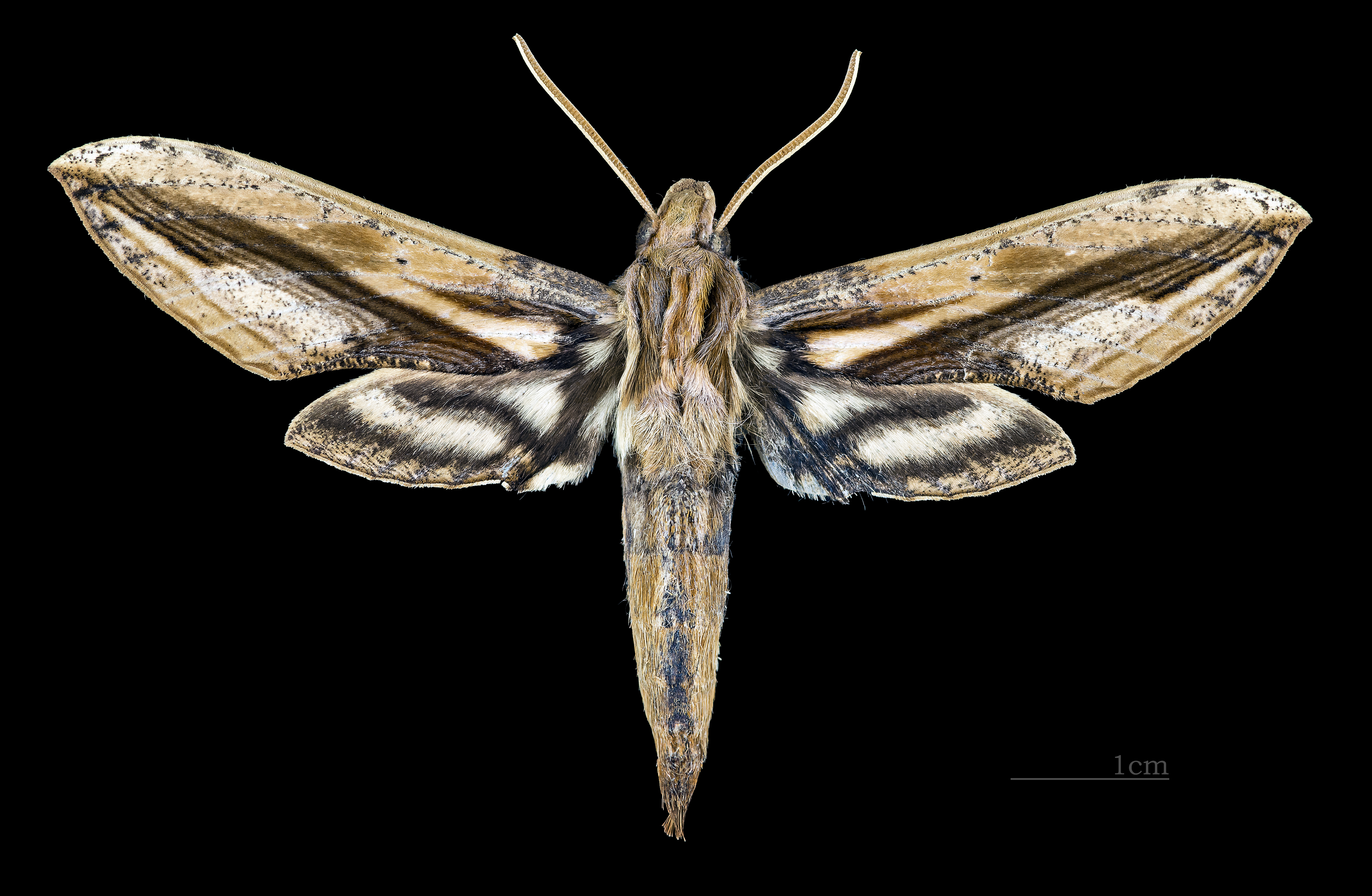 Xylophanes xylobotes - Dorsal side Collection of the Mathematician Laurent Schwartz